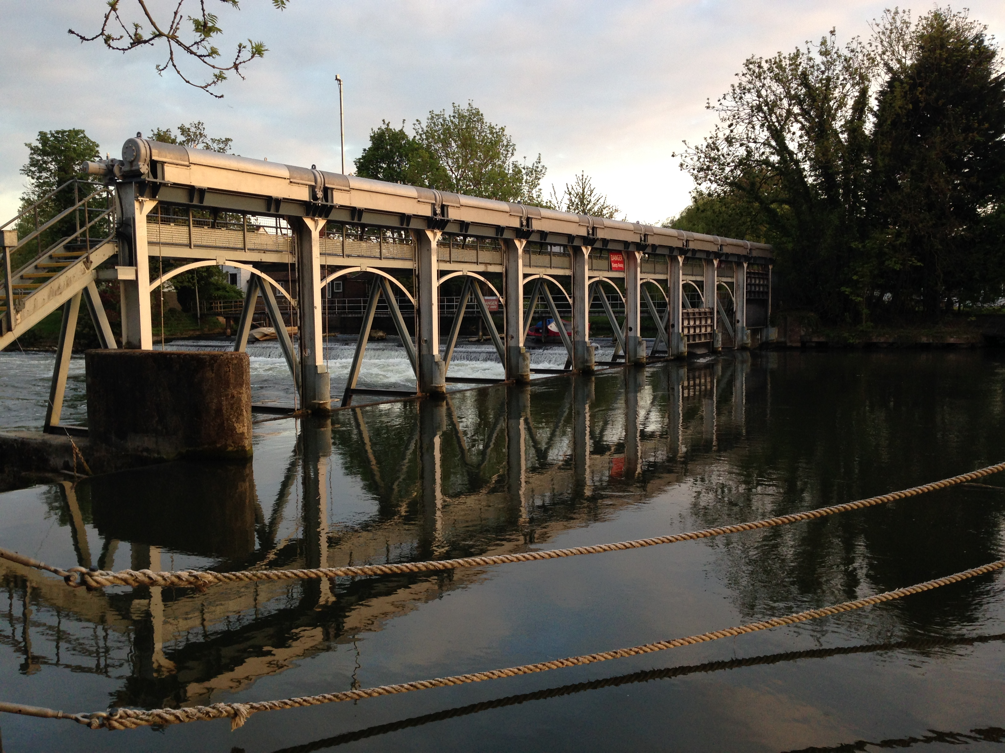 The upstream side of the weir at Bray Lock during a warm spring evening. Visible in the background is an additional weir used for overspill, while there are catch ropes in the foreground to prevent boats from going over the weir and into the weir pool downstream.